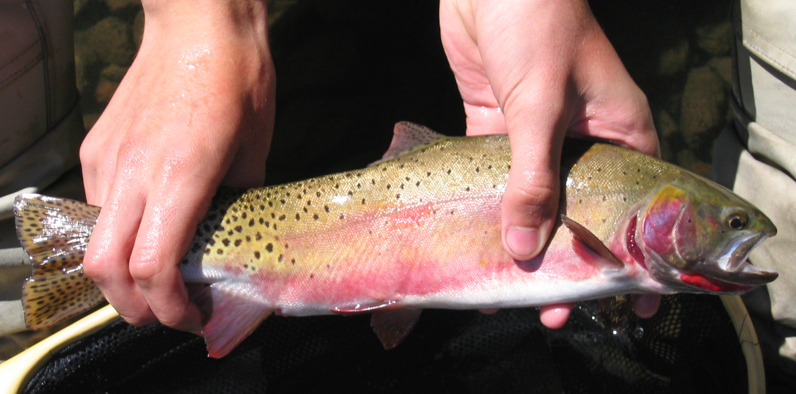 Rio Grande Cutthroat from the Alamosa River watershed. Photo Craig D Young